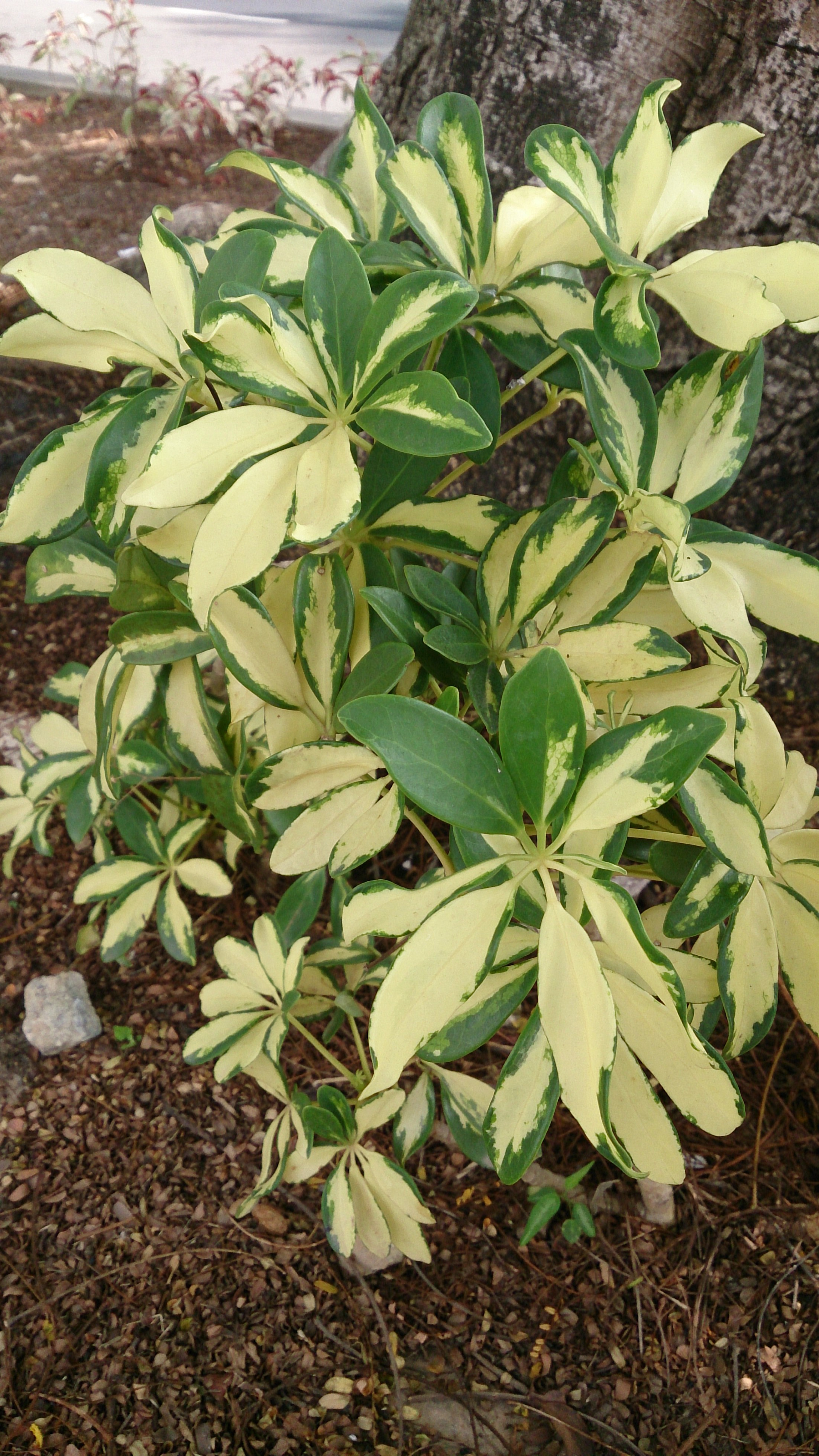 Schefflera arboricola 'Variegata'